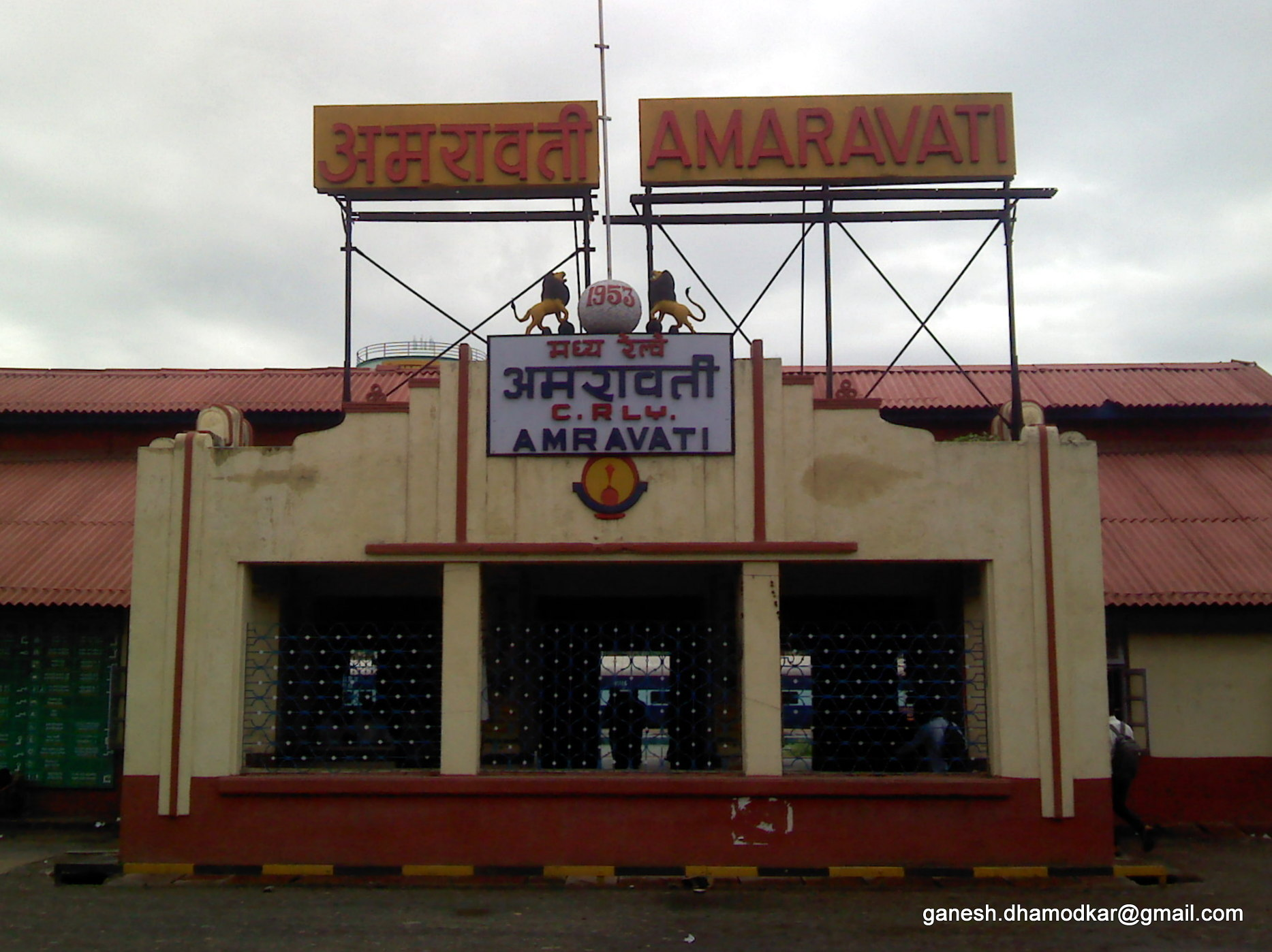 Amravati Railway Station